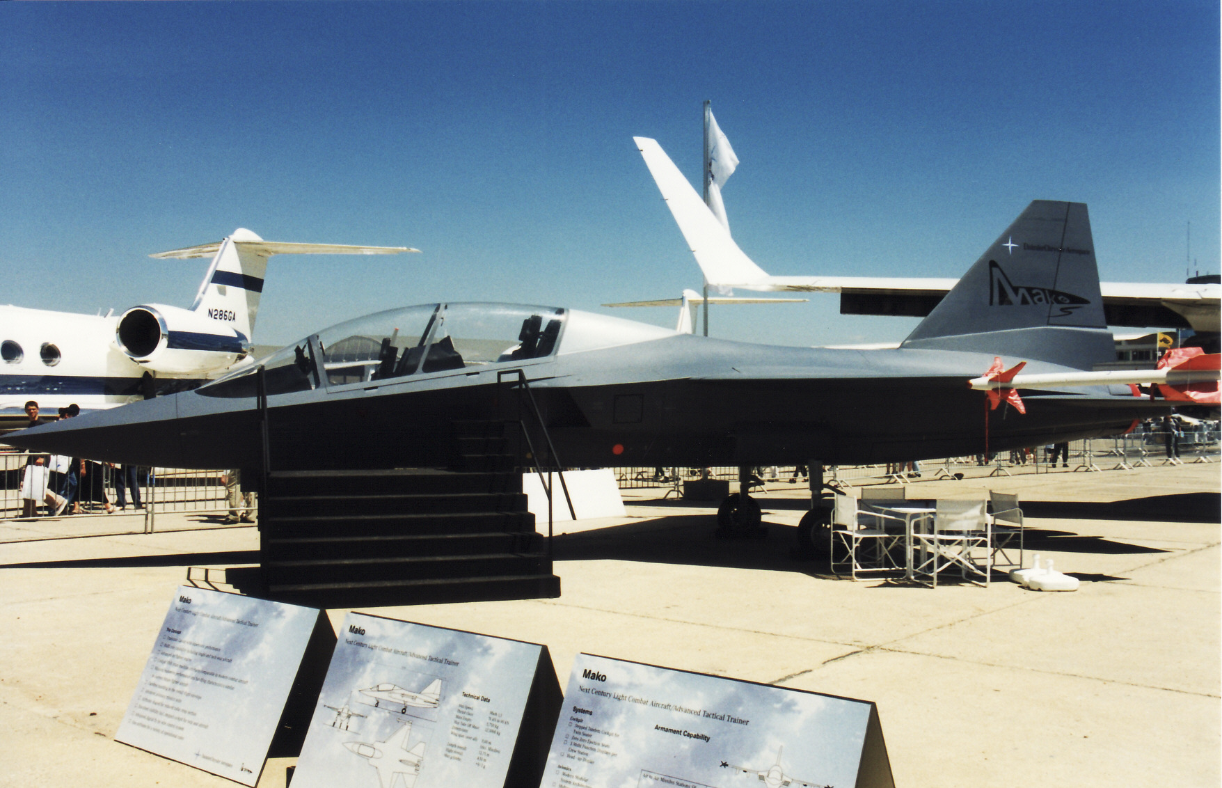 EADS Mako jet trainer mockup at Paris Air Show, Le Bourget 19June 1999